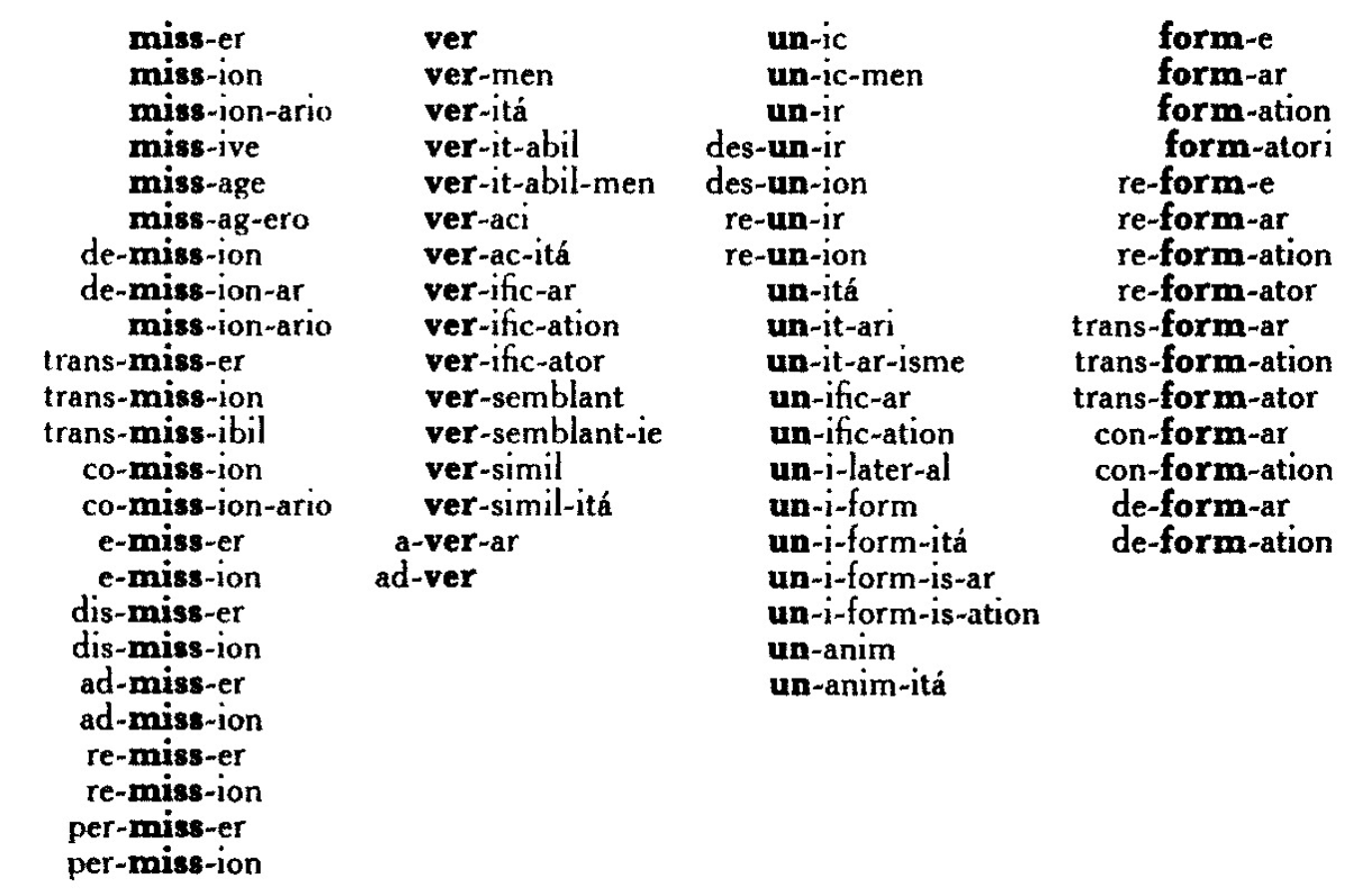 An example of derivation (word formation) for the language Interlingue (Occidental), from p. 53 of Cosmoglotta A in 1953.